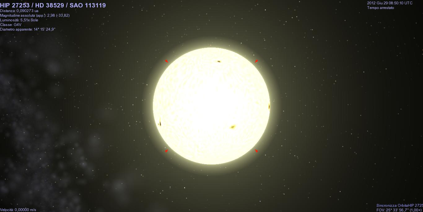 HD 38529 in Celestia